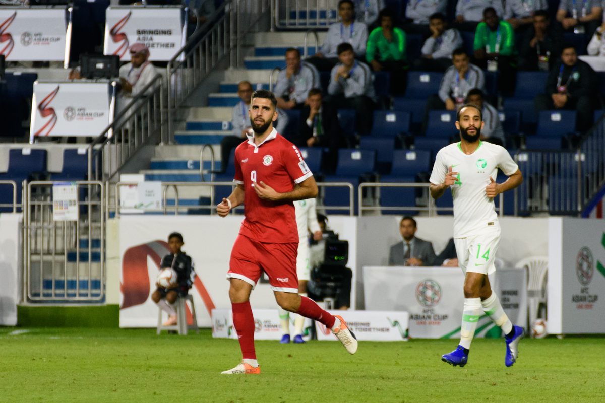 Match scene of Lebanon vs Saudi Arabia (Asian Cup 2019)